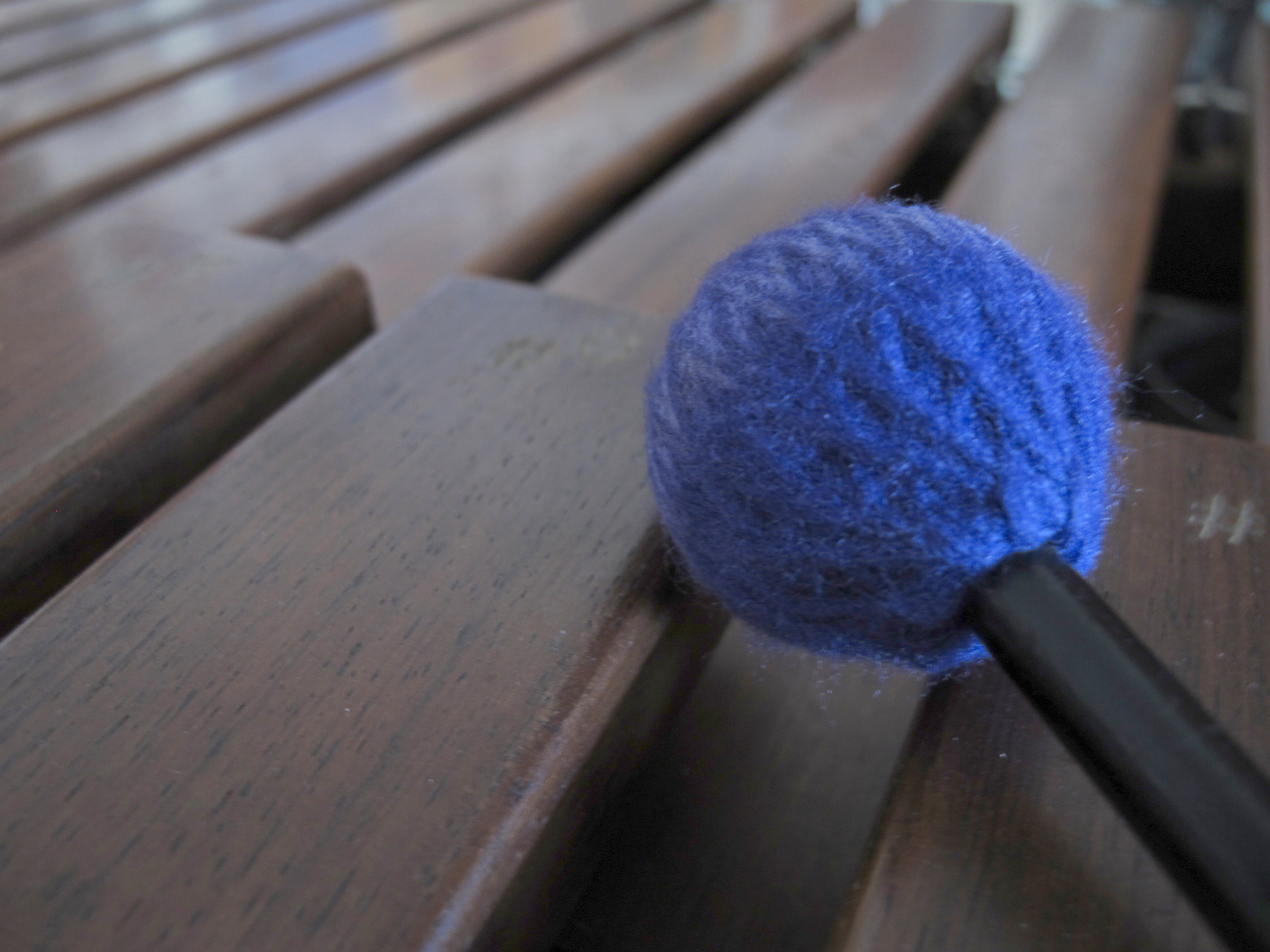 marimba upstairs at marsh woodwinds